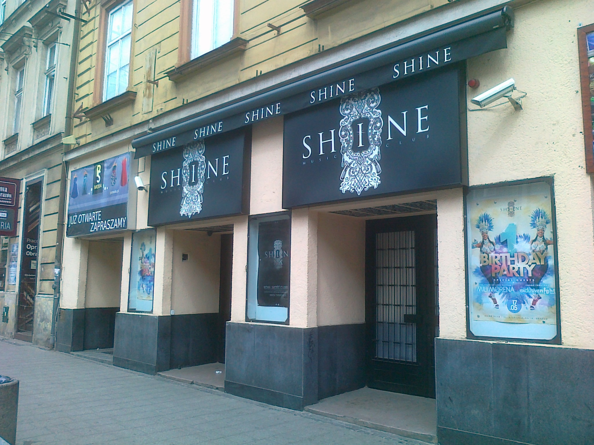 Movie theater Uciecha in Kraków in 2014 - Shine, Poland